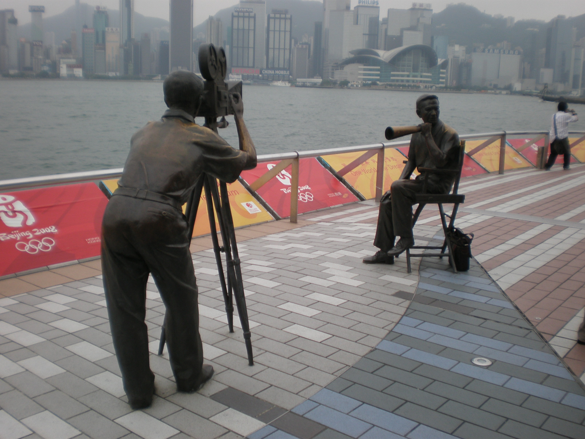 Statue of a cameraman and director on the Avenue of Stars in Hong Kong.